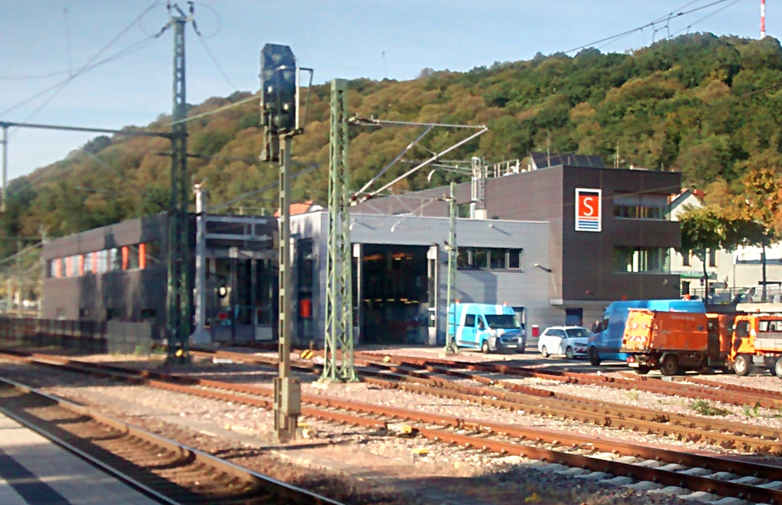 Depot of the Saarbahn